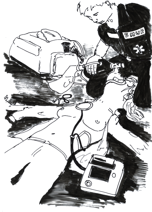 CPR-oxygen-defibrillator